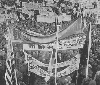 Demonstration in support of the U.S.-Soviet Joint Commission